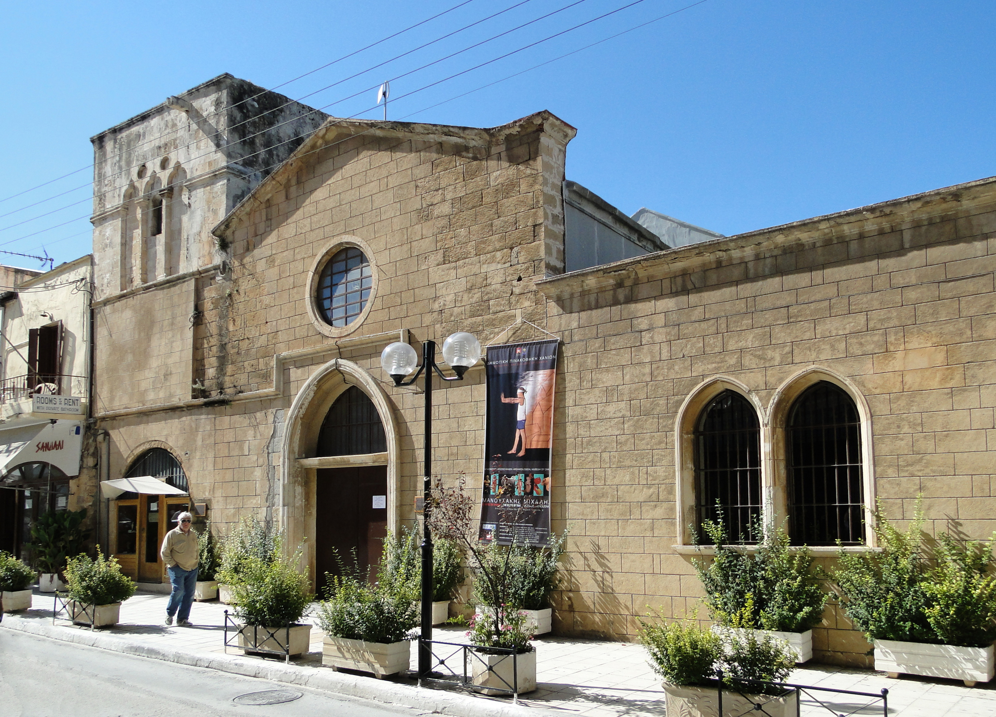 Archaeological Museum of Chania, Crete, Greece